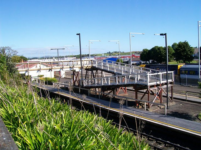 Pukekohe Train Station. Left line(south), Right line(north/south)